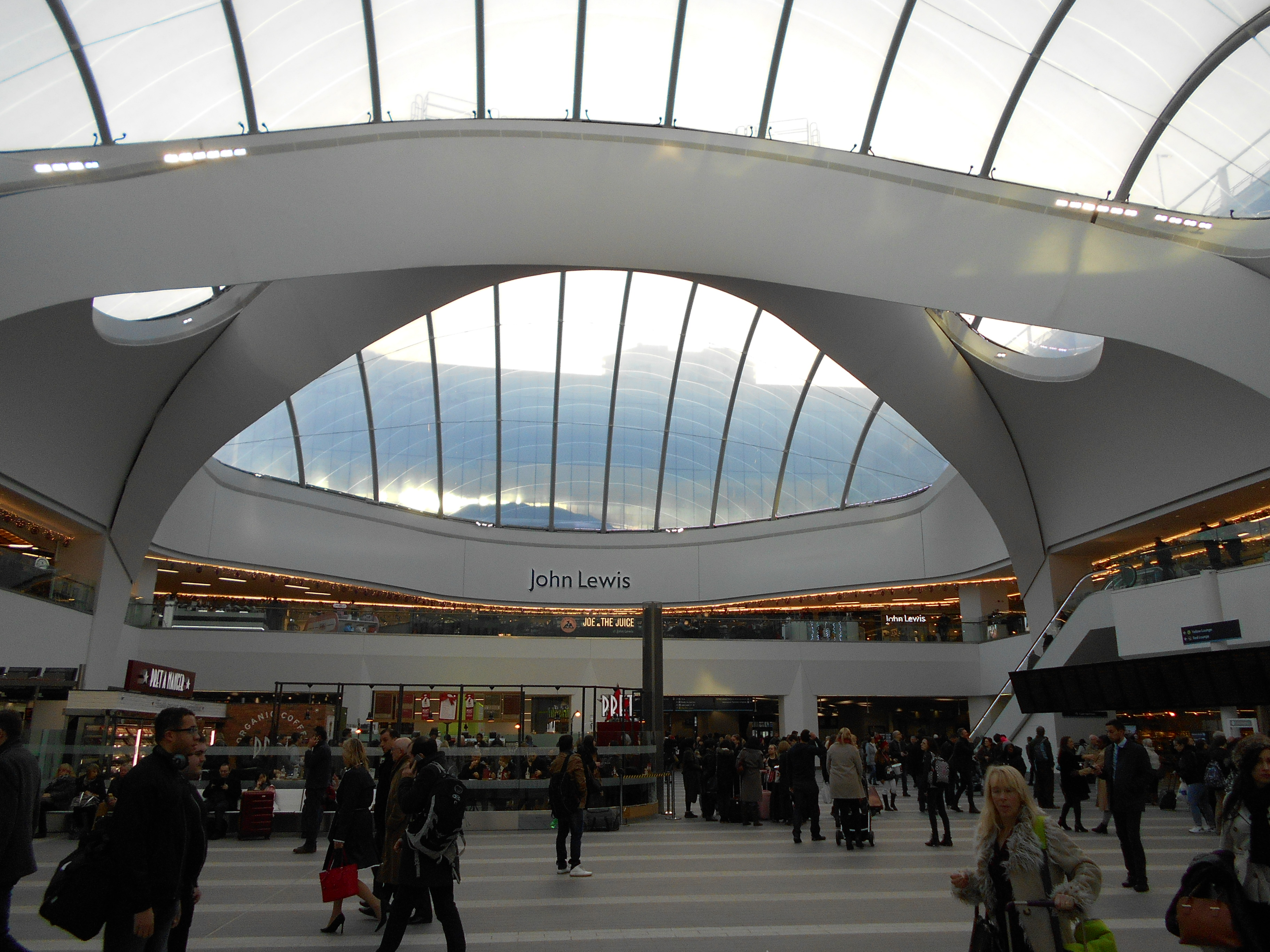 The atrium at Birmingham New Street station.